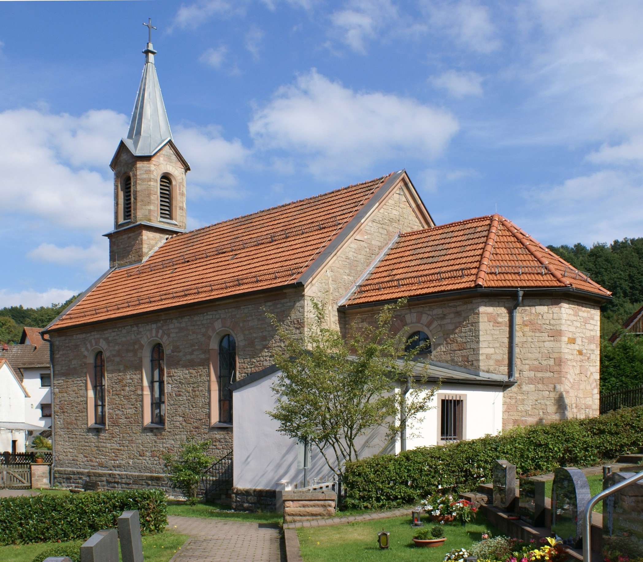 The church named Herz Jesu Kirche in Jakobsthal a village that belongs to the community Heigenbrücken